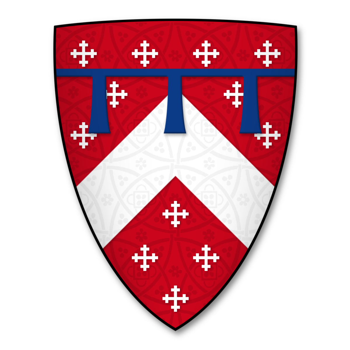 Coat of arms of Maurice de Berkeley, as blazoned in the Caerlaverock Poem (K-088: "Morices de Berkelee") "Baniere ot vermeille cum sanc Croissillie o un chievron blanc Ou un label de asur avoit." Arms: Gules, crusily and a chevron argent, a label azure.